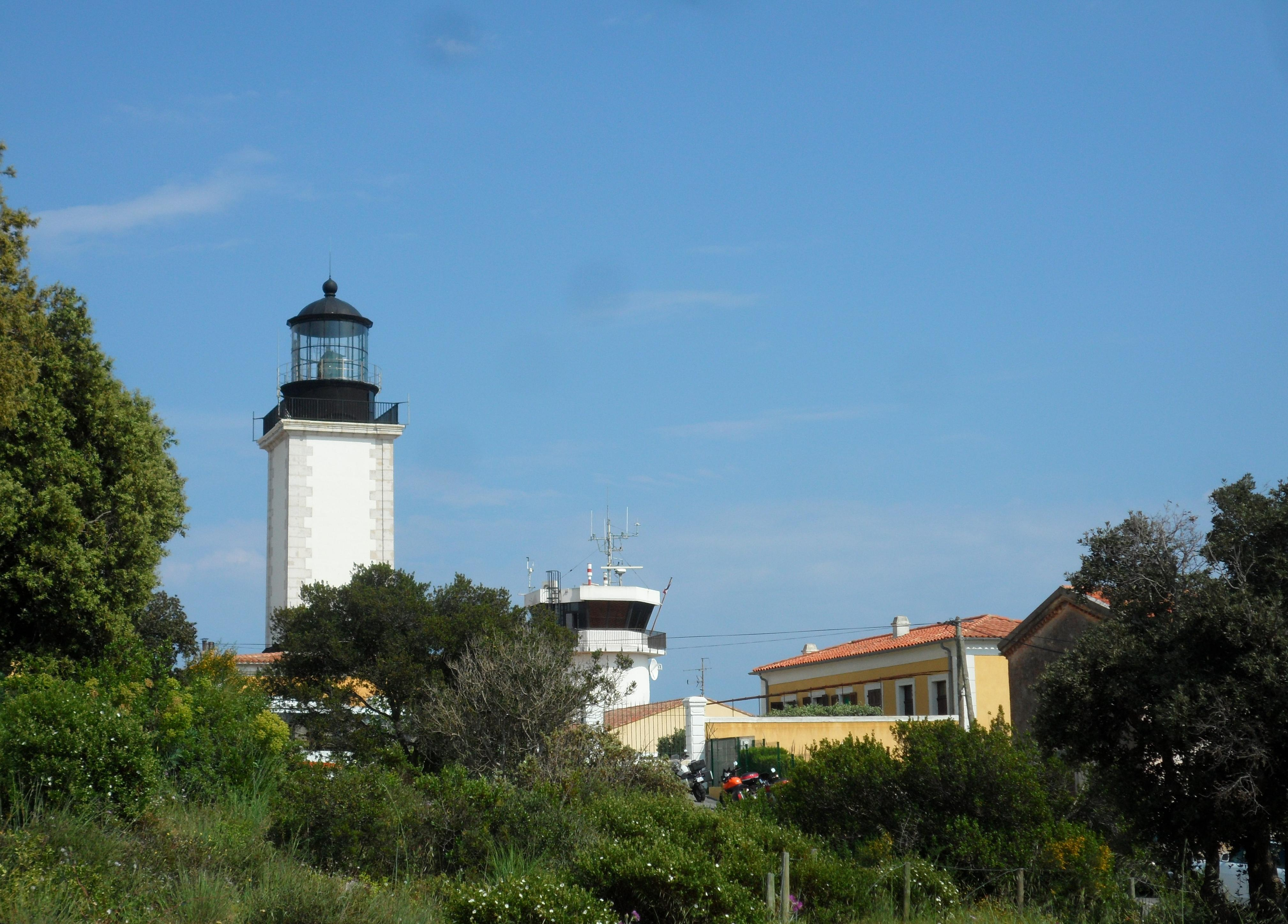 Lighttower Phare de Camarat on top of Cap Camarat